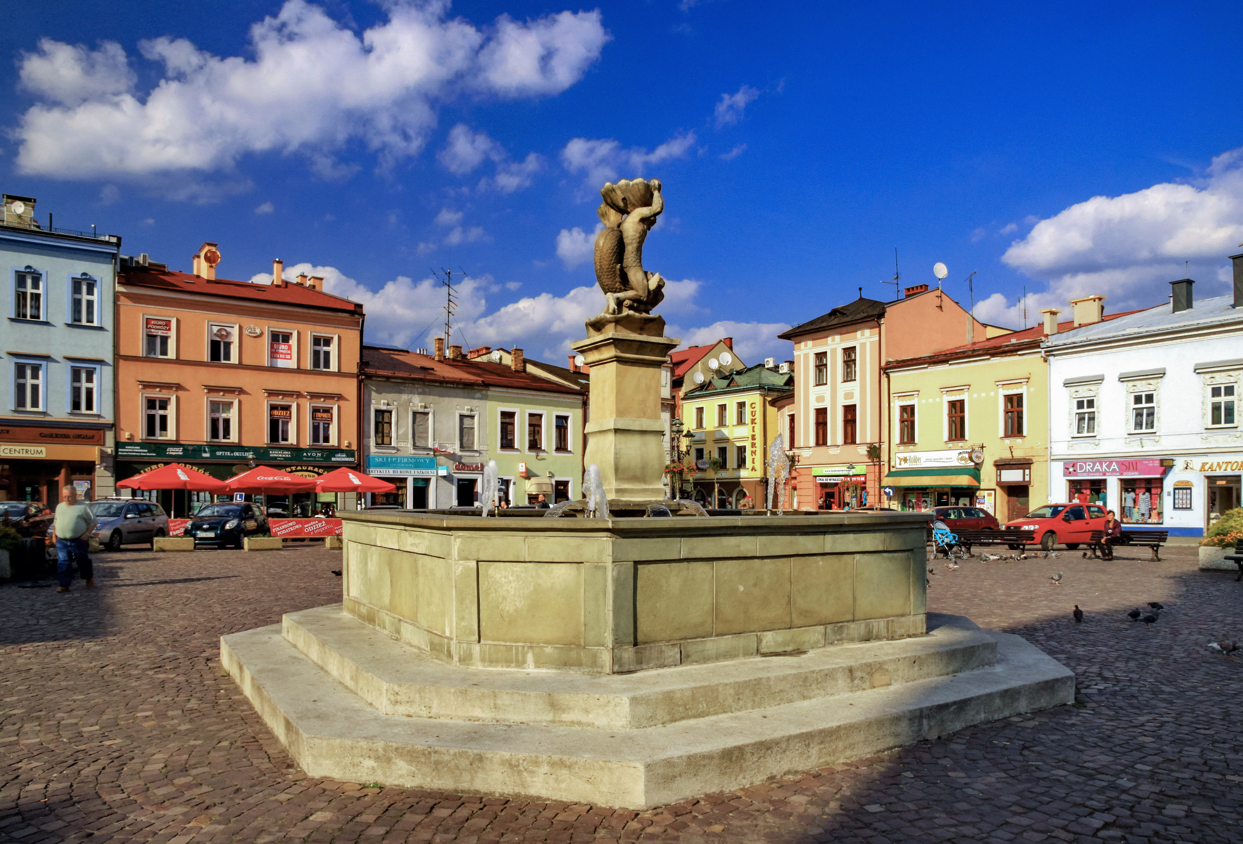 Fountain with Jonasz (Triton) statue build in 1775. Skoczów, Silesian Voivodeship, Poland.